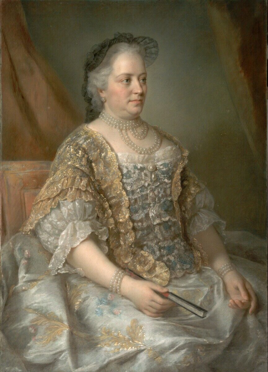 Portrait of Maria Theresa, sovereign of Austria, Hungary and Bohemia, in 1762